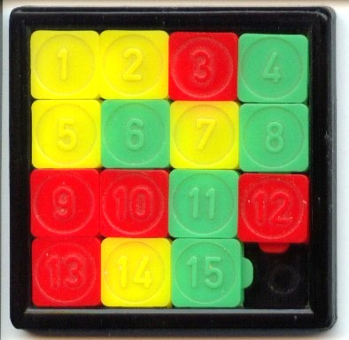 a 15 puzzle, also known as a boss puzzle